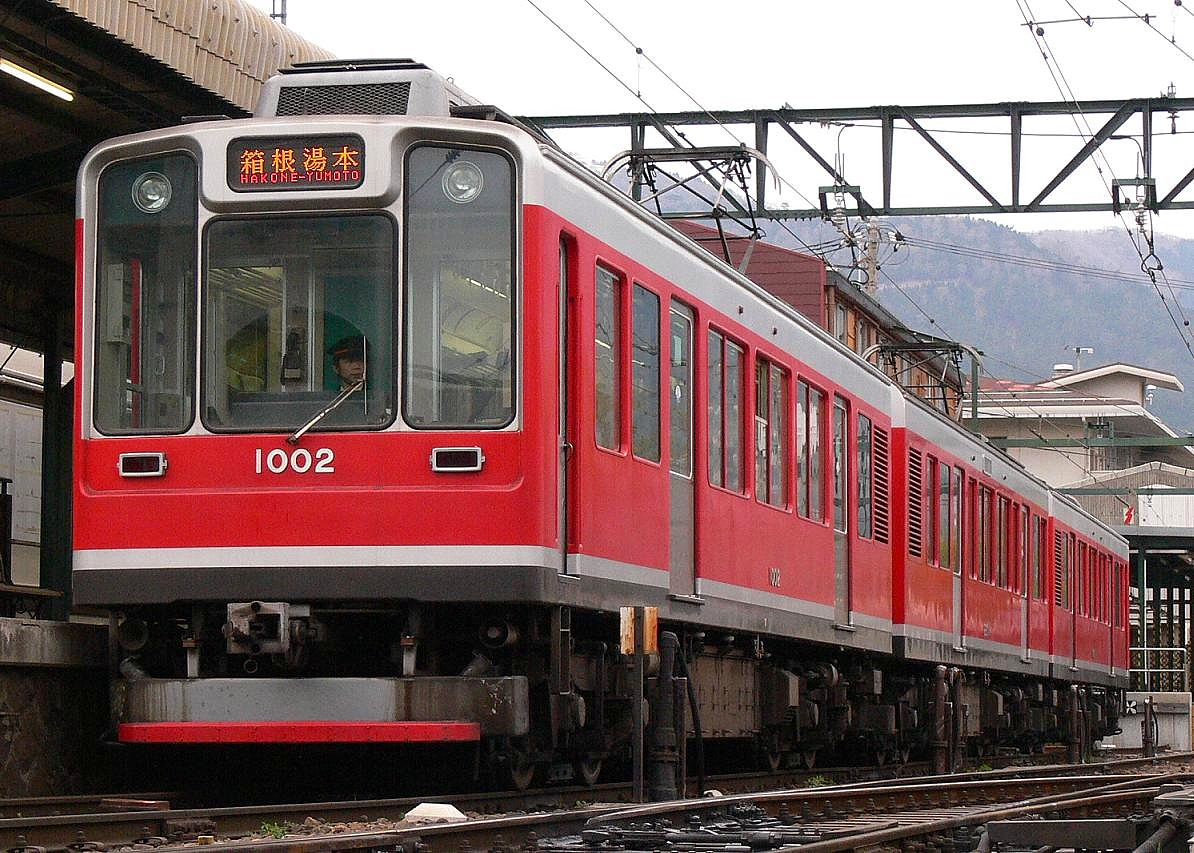 Hakone tozan Railway type 1000 Train "Bernina"(Japan). It takes a picture from the public road with Gora Station. 箱根登山鉄道1000形電車の箱根湯本行き列車。 この1000形電車には、ベルニナ号の愛称がある。 愛称名の由来は箱根登山鉄道と姉妹提携を結ぶスイスのレーテッシュ鉄道のベルニナ線から。 箱根登山鉄道線強羅駅にて、公道より撮影